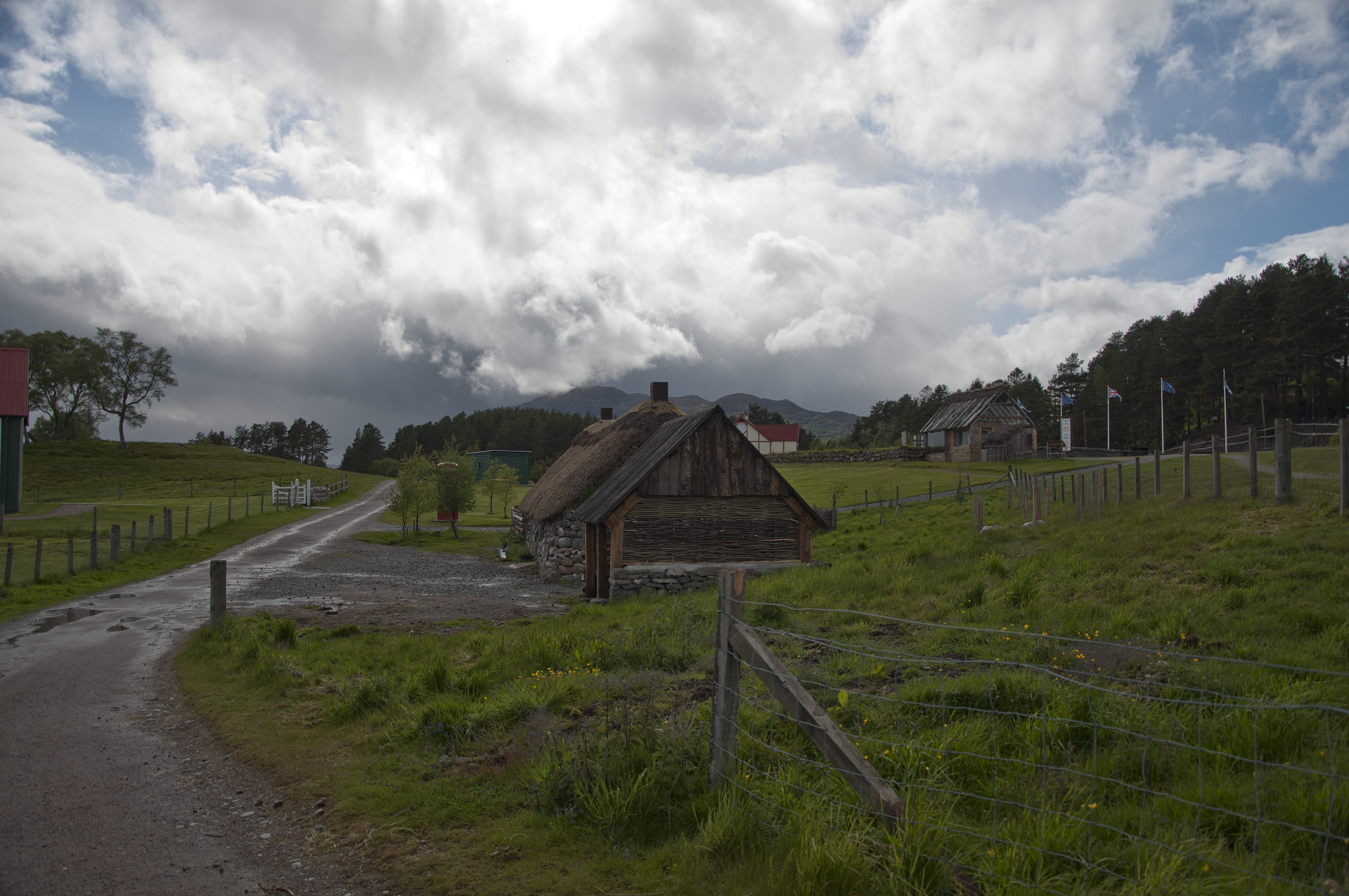 Highland Folk Museum, Newtonmore, Scotland